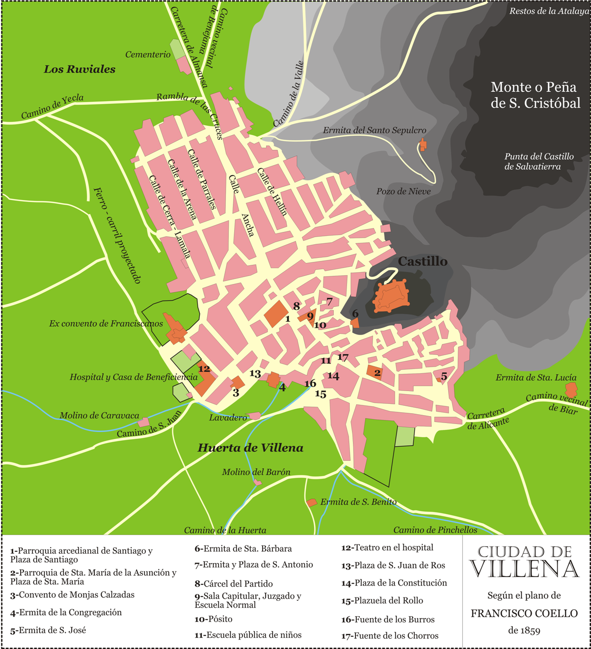 Map of Villena (Alicante) based on 1859 Francisco Coello's map